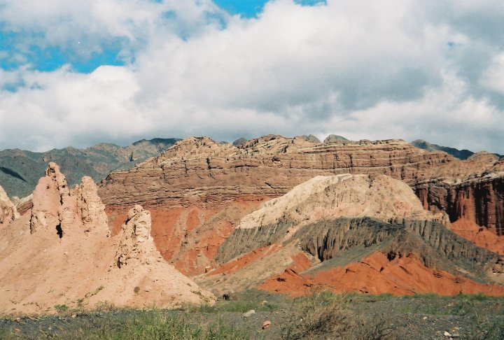 In the Quebrada de Cafayate, Salta, Argentina